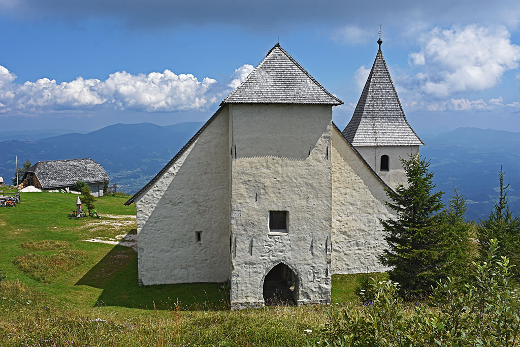 Uršlja gora, the church of sta. Ursula.